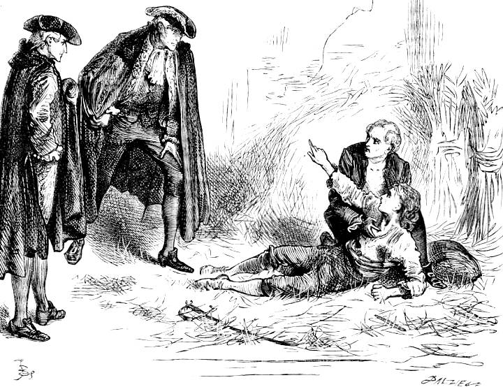 A Tale of Two Cities, Dr. Manette's epistolary denunciation of the St. Evrémonde brothers, his patient dying, damns them for crimes against him and his family in 1757, Book 3, chap. viii"Twice he put his hand to the wound in his breast, and with his forefinger drew a cross in the air" (p. 152) by Fred Barnard. 1870s. 10.5 x 13.5 cm. (framed). In the story-within-a story, Dr. Manette's epistolary denunciation of the St. Evrémonde brothers, his patient (Terese Defarge's brother, in fact), dying, damns the twin aristocrats for crimes against him and his family in the year 1757 in Dickens's A Tale of Two Cities, Book 3, chap. viii, originally in the twenty-seventh weekly part (29 October 1859) in All the Year Round, and then in the December 1859 illustrated monthly number.